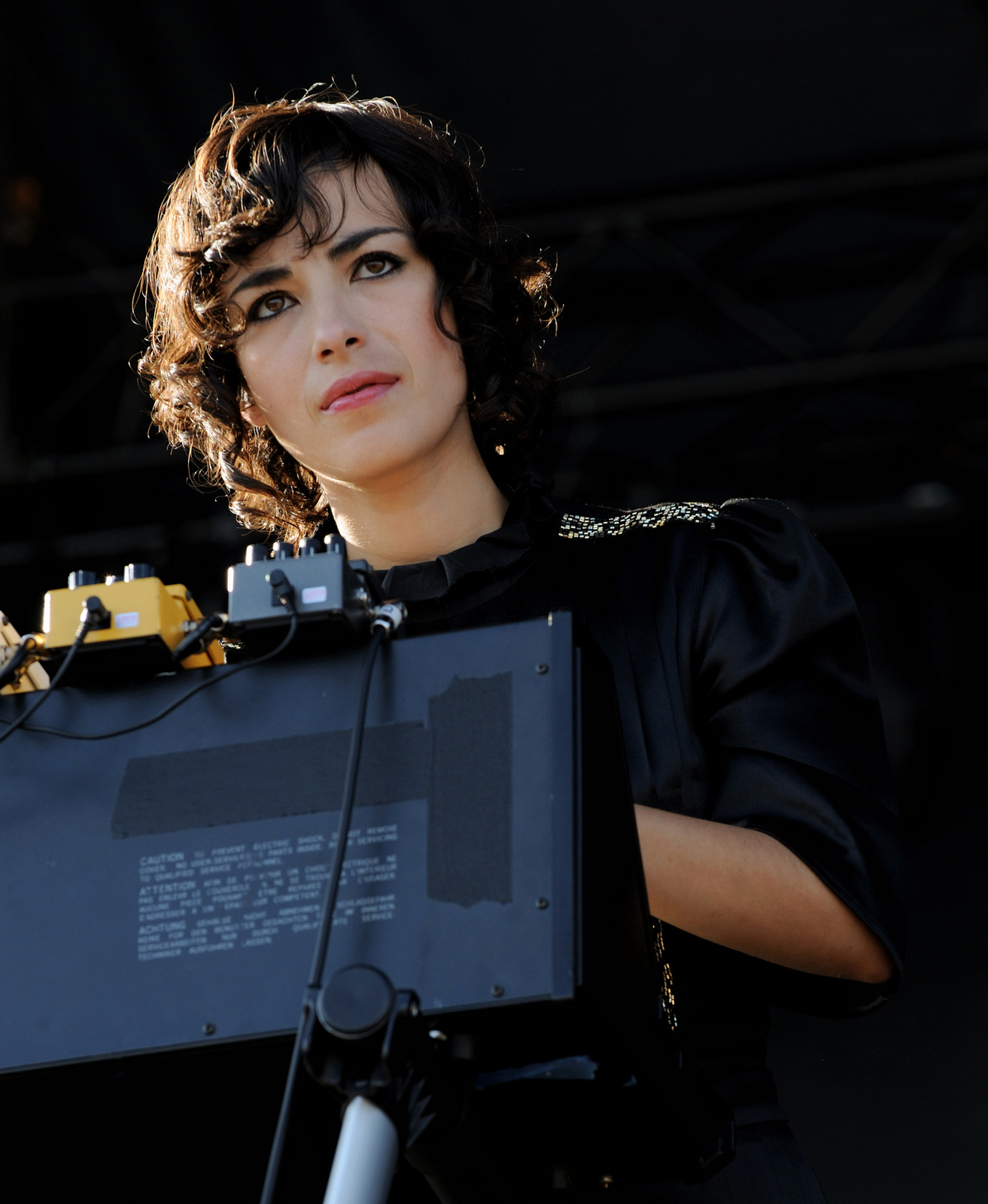 Ladytron's Mira Aroyo at Ottawa Bluesfest, 2008